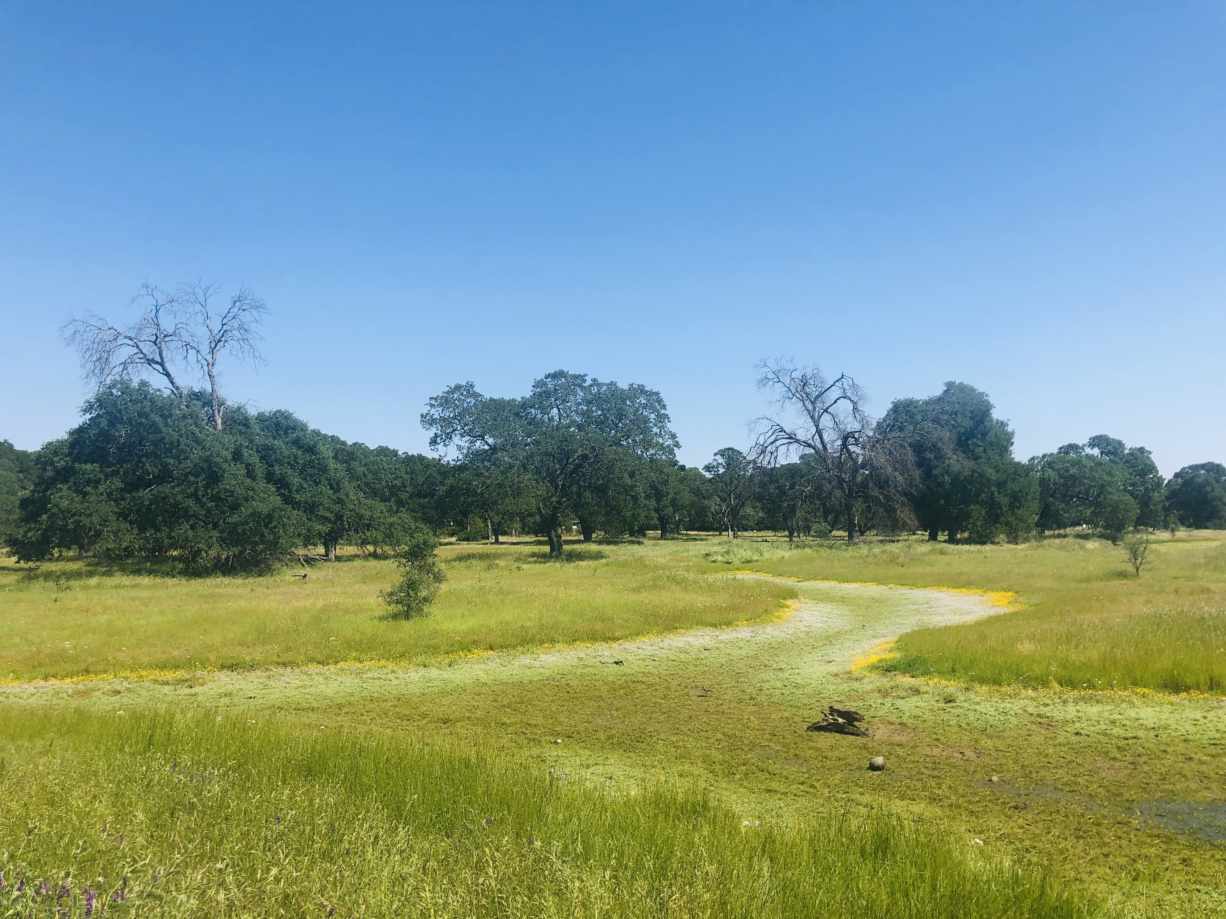 Phoenix Vernal Pools in bloom during May, 2019.